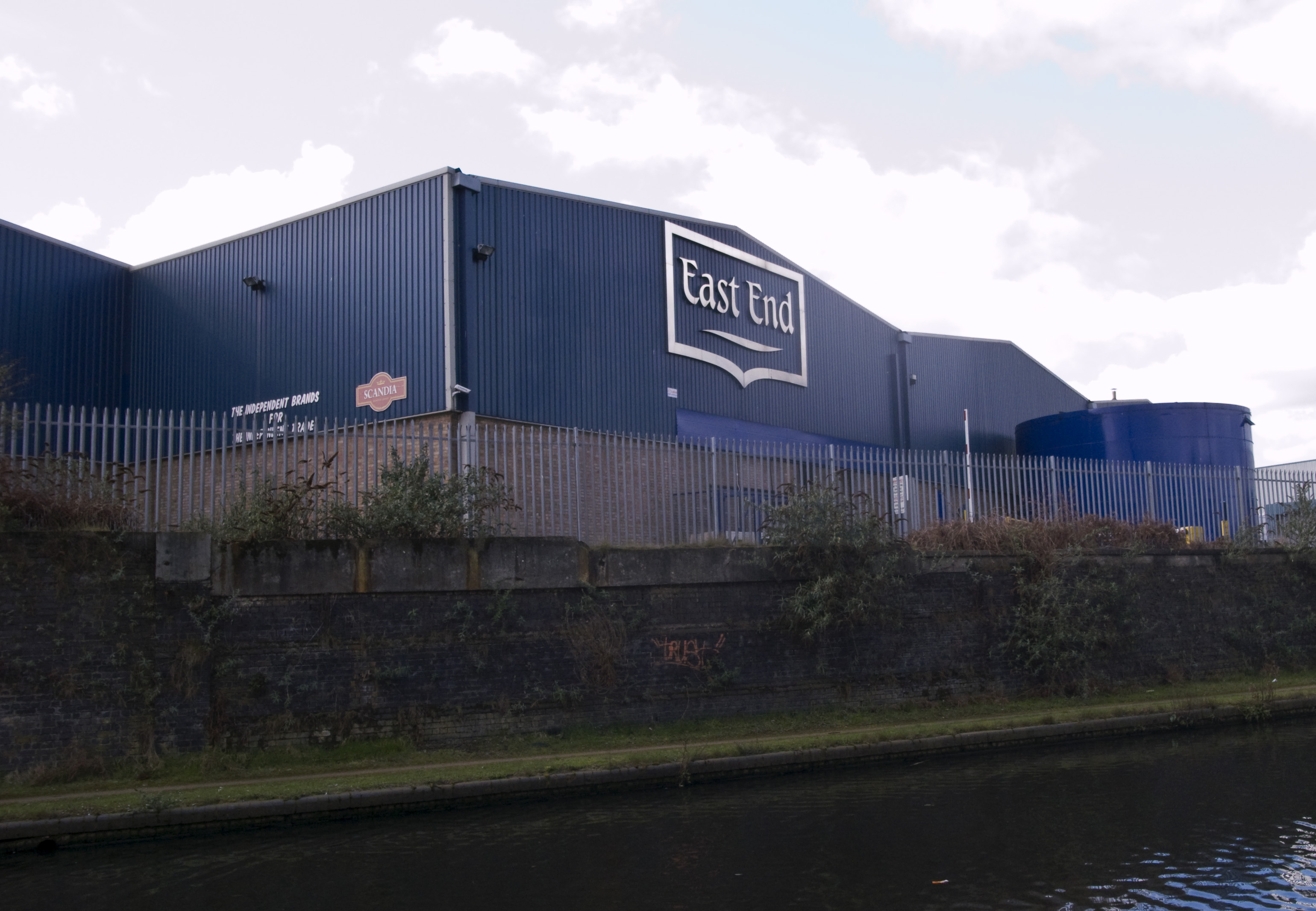 East End Foods warehouse, near the BCN Main Line canal, Smethwick, England.